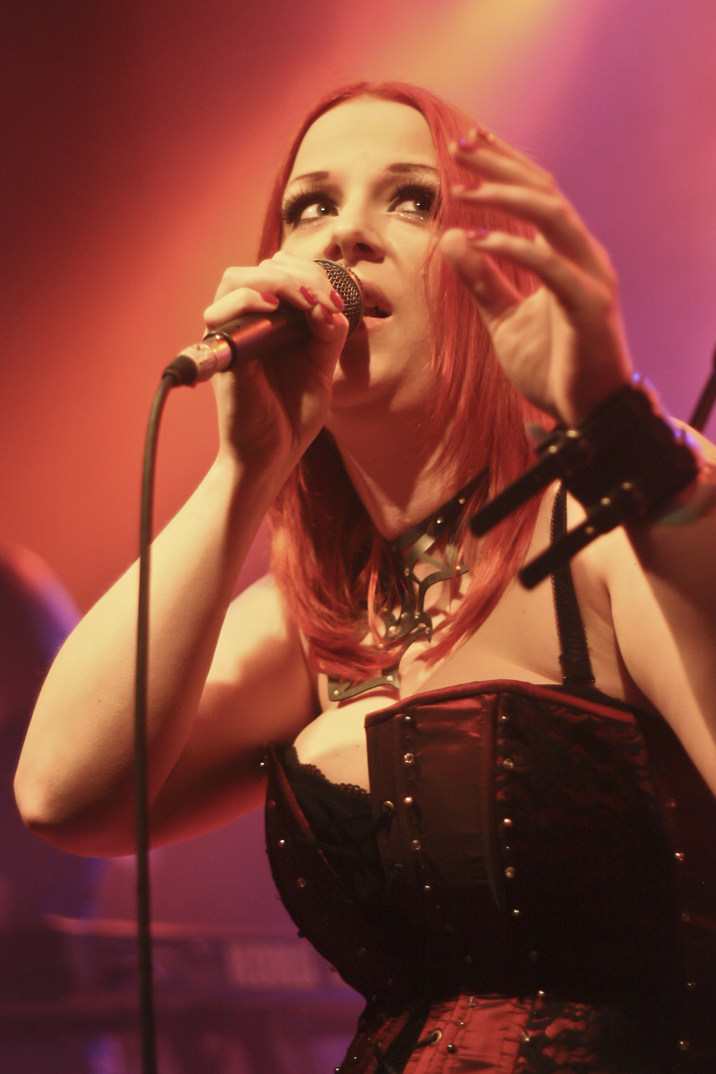 Lisa Middelhauve